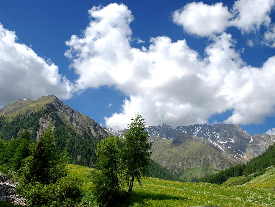 View near Samnaun, Graubünden